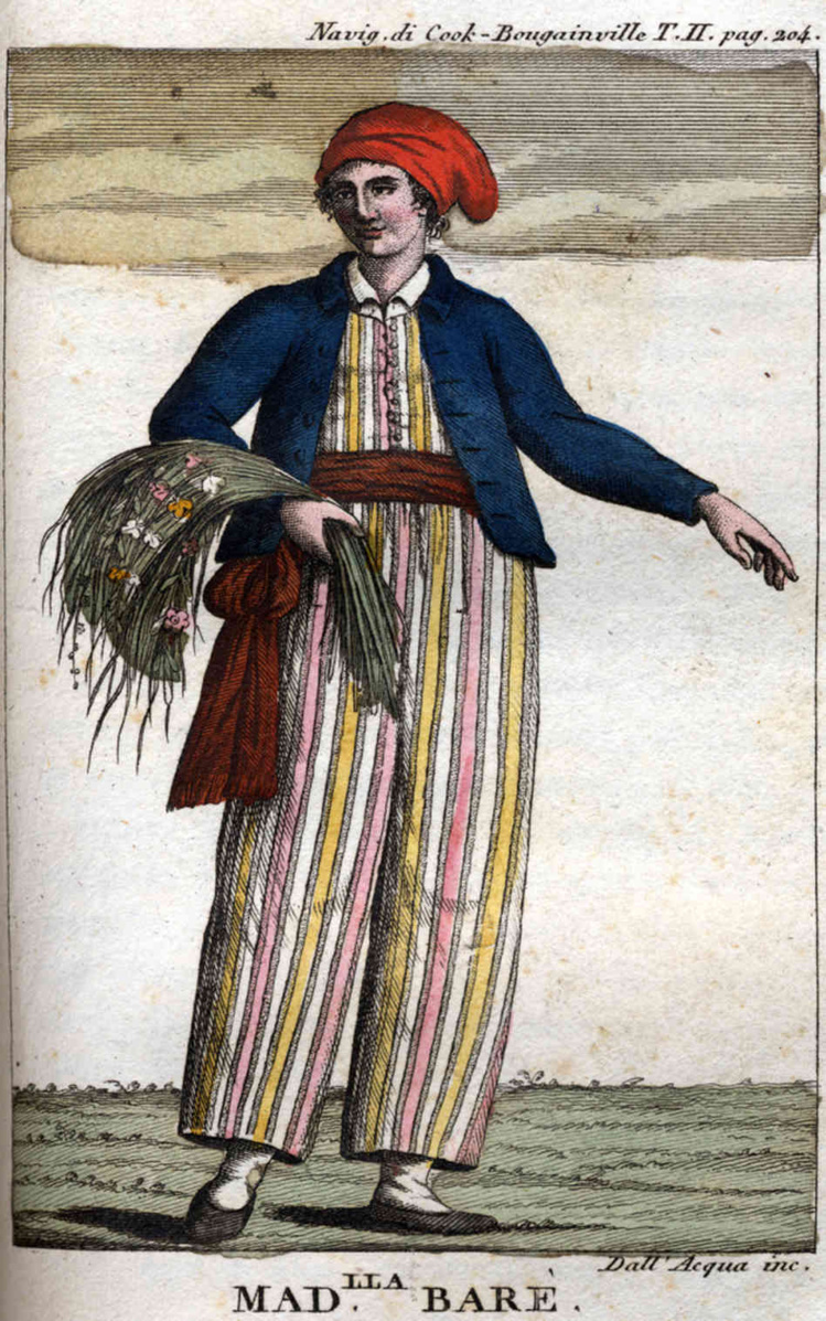 Portrait of Jeanne Barret (1740-1807) by Cristoforo Dall'Acqua (1734-1787), extract from Navig. di Cook - Bougainville, T. II, pag. 204